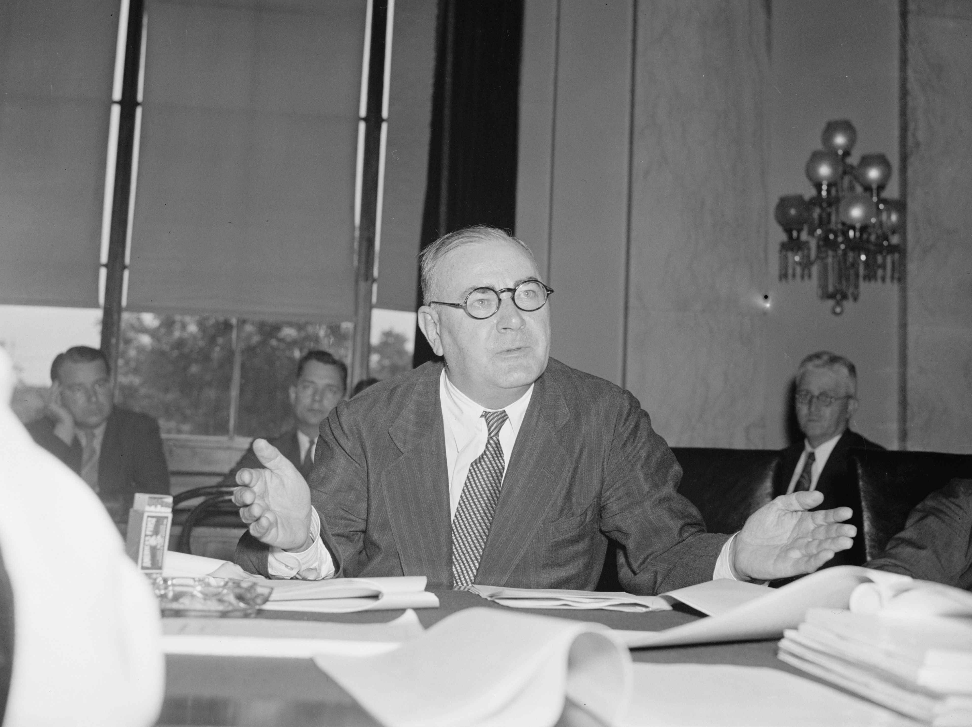 New public works program will not interfere with private industry, Senate Committee told. Washington, D.C., July 13. The new Federal Works Administrator, John M. Carmody, today promised the Senate Banking and Currency Committee that the new $350,000,000 public works program would not interfere with private industry. He pointed out that President Roosevelt's program made no specific provisions for federal loans to municipalities for acquisition of private utilities